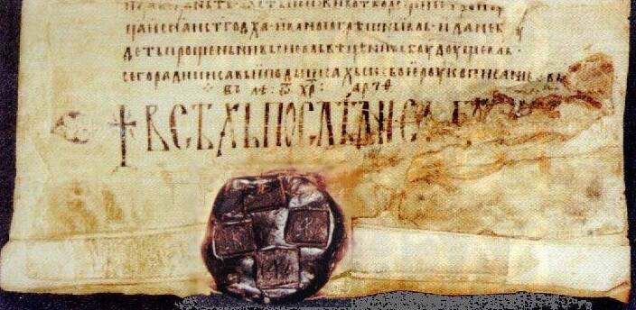 The Typicon of Karyes with the authentic signature of Saint Sava. It is one of the oldest Serbian documents in the monastery of Hilandar (detail).